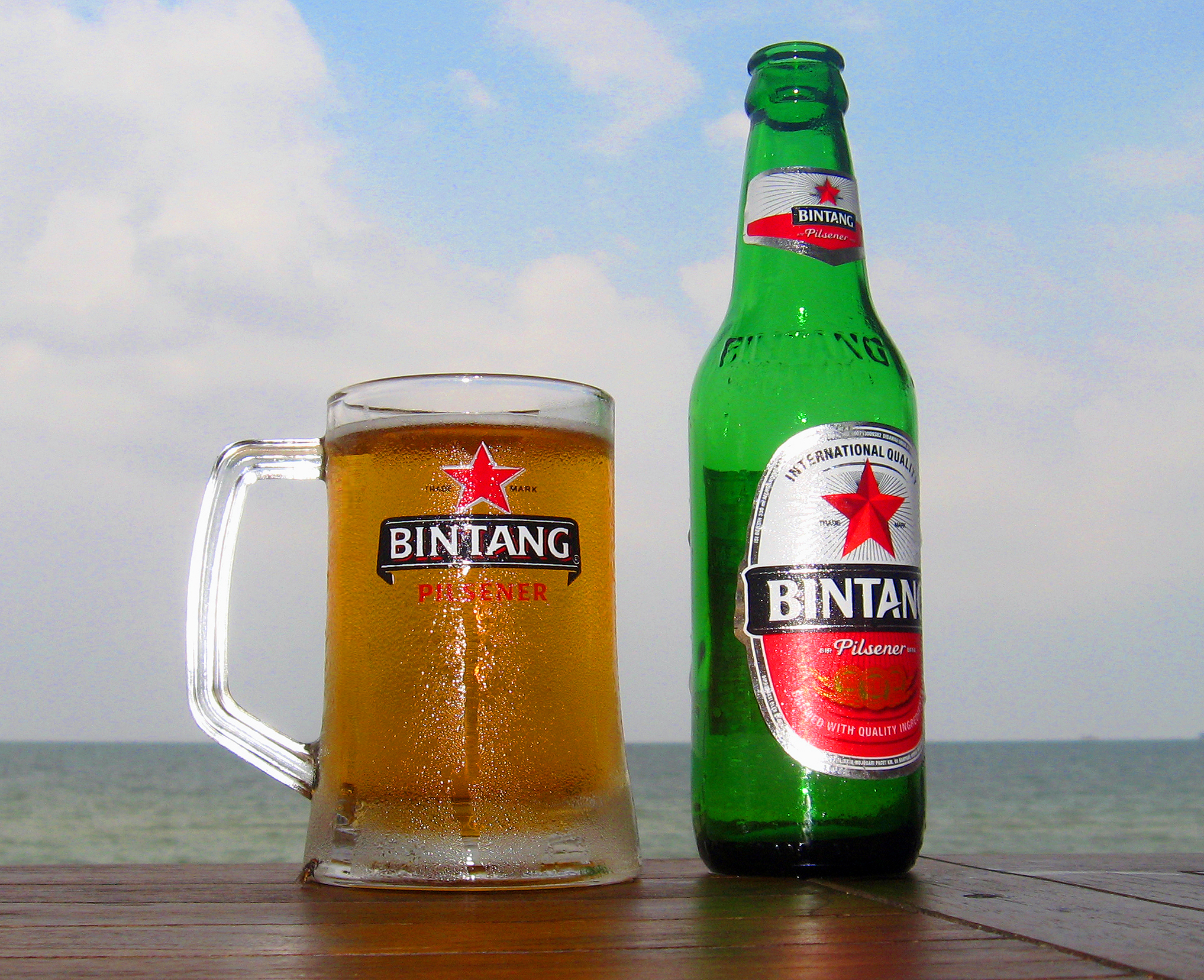 A bottle and mug of Bintang Beer, taken at Bandengan Beach in Jepara, Central Java, Indonesia